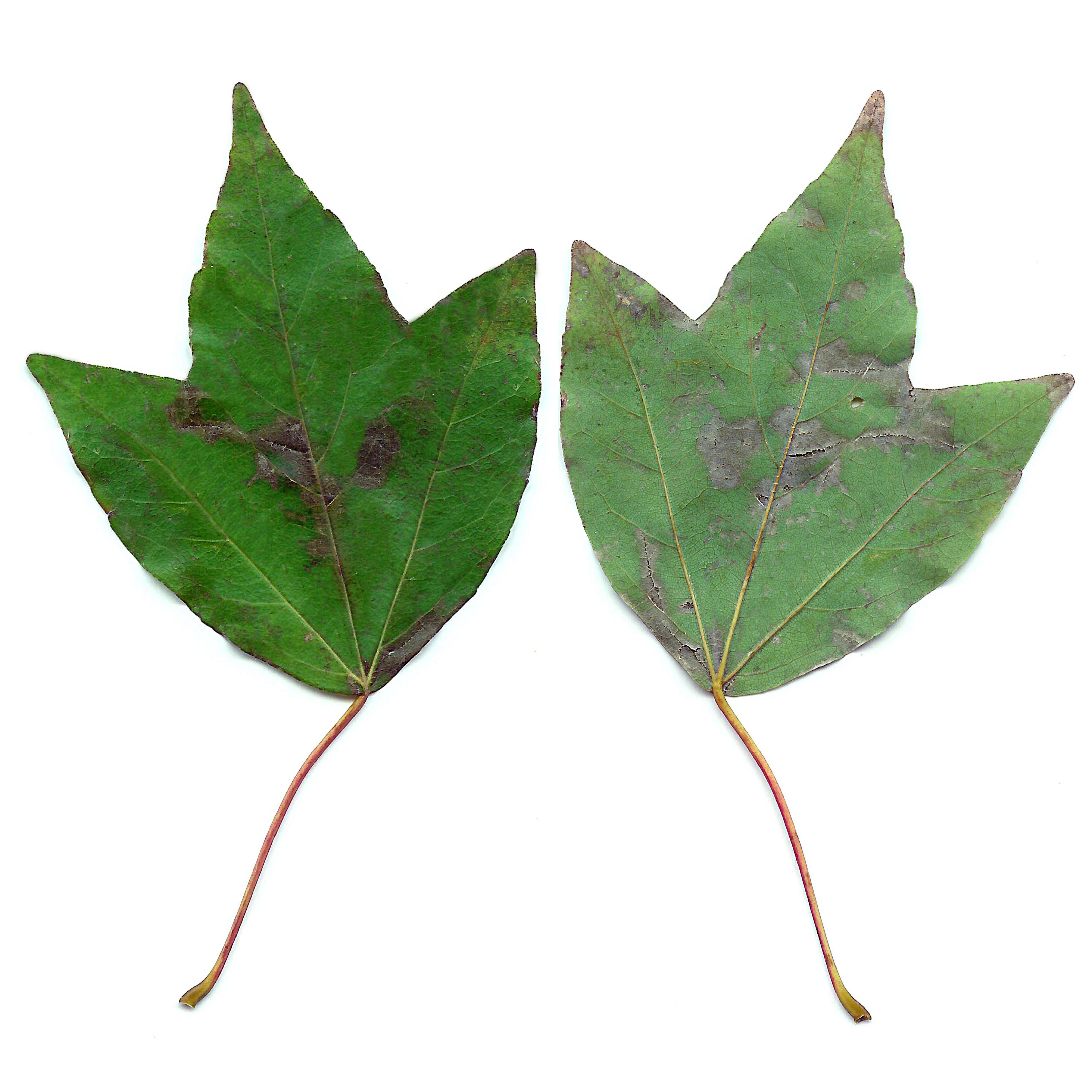 Acer buergerianum two sides of leaf